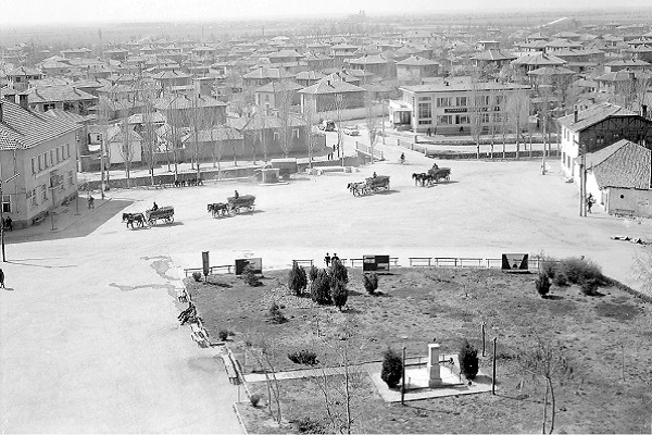 Town square in Generala